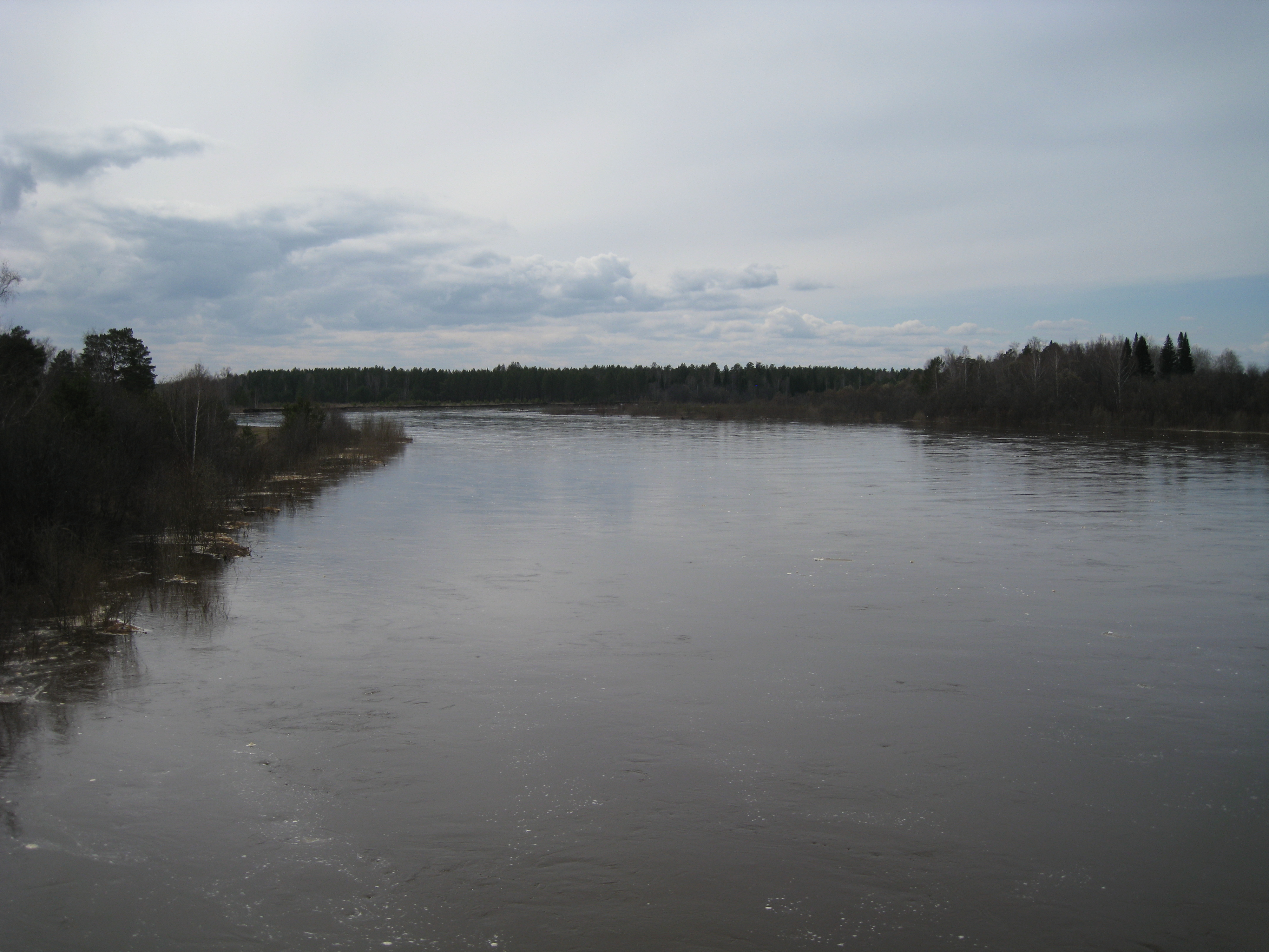 River Kem near Yeniseysk during flood (May)